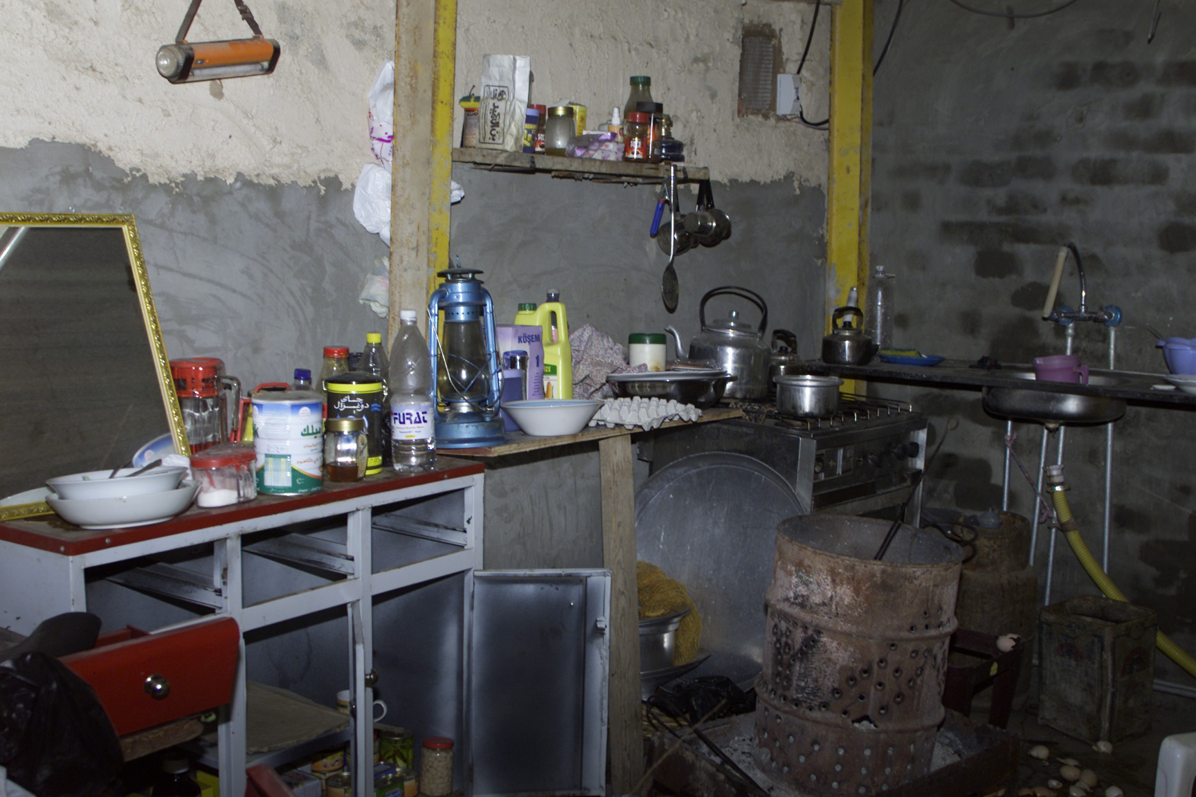 Ad Dawr, Iraq (Dec. 17, 2003) -- A modest array of items sits inside the makeshift kitchen where Saddam Hussein probably ate his last meal before his capture in the village of Ad Dawr, which approximately 15 kilometers south of Tikrit, Iraq. U.S Army photo by Staff Sgt. David Bennett. (RELEASED)